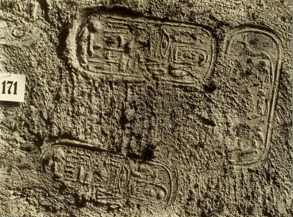 Harry Burton: Tutankhamun tomb photographs: a photographic record in 5 albums containing 490 original photographic prints ; representing the excavations of the tomb of Tutankhamun and its contents. Vol. 4